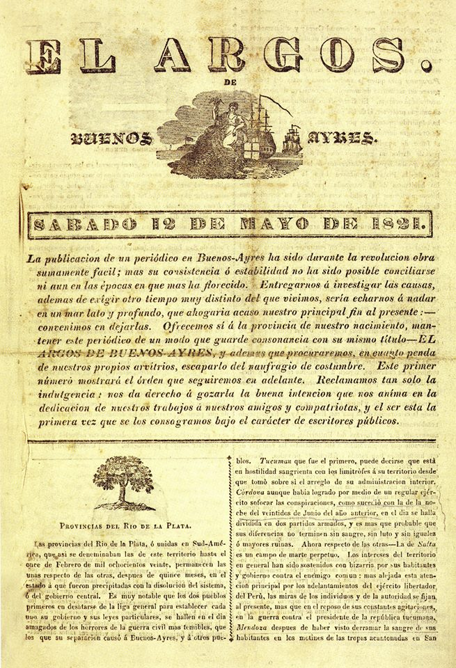 Cover for El Argos de Buenos Aires N° 1, Argentine newspaper closed in 1822.